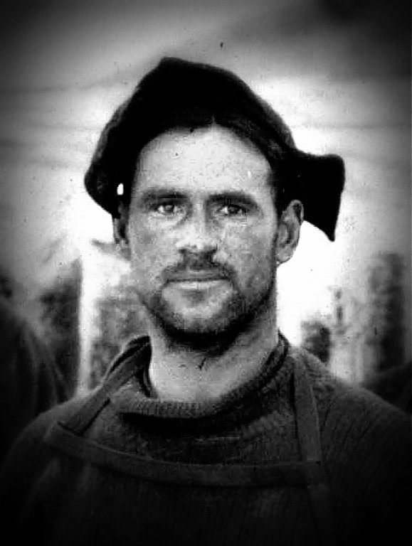 Edward Teddy Evans (1881–1957), 2nd in command on the Terra Nova Expedition (1910–1913)